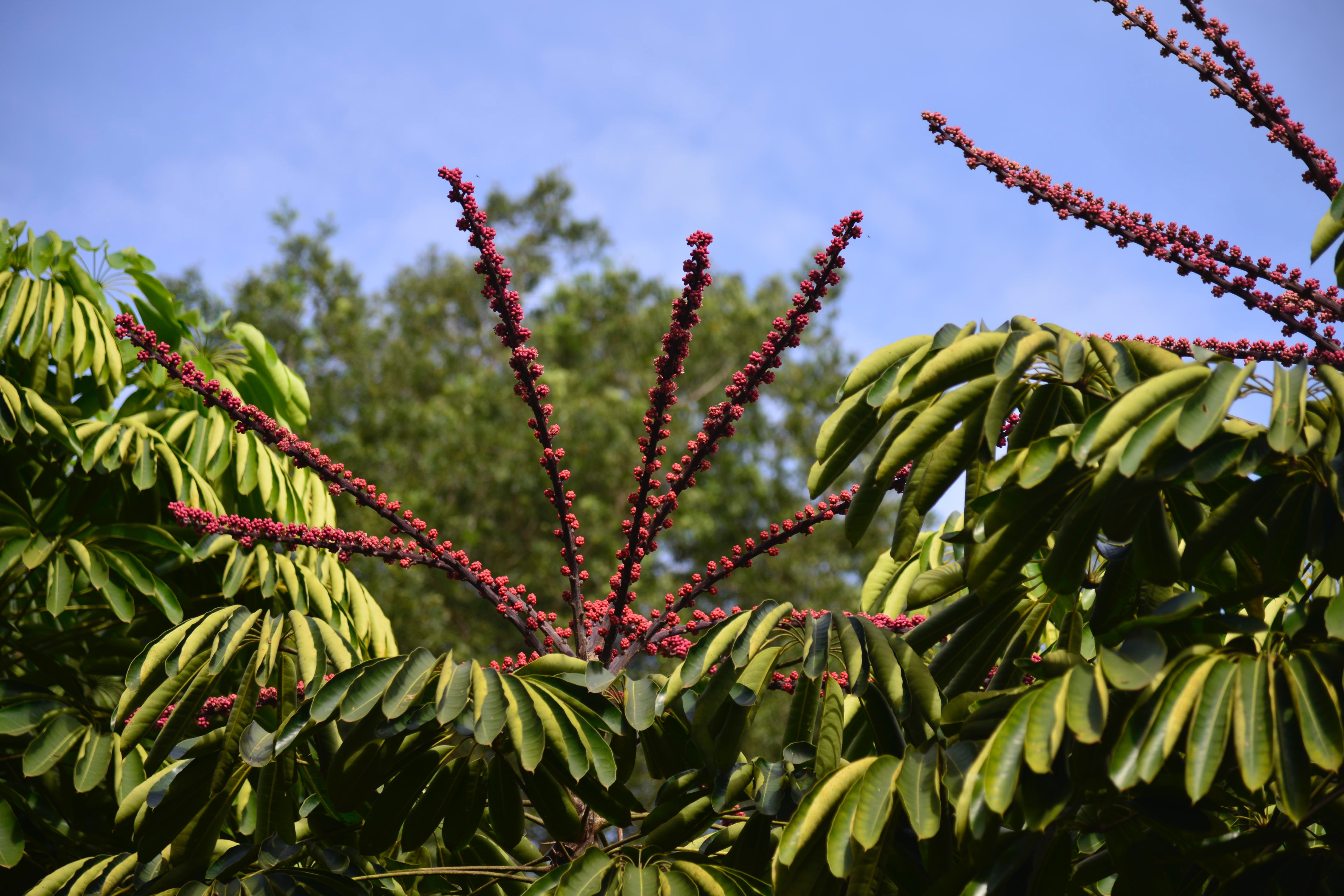 Bugalobi area, Kampala, Uganda